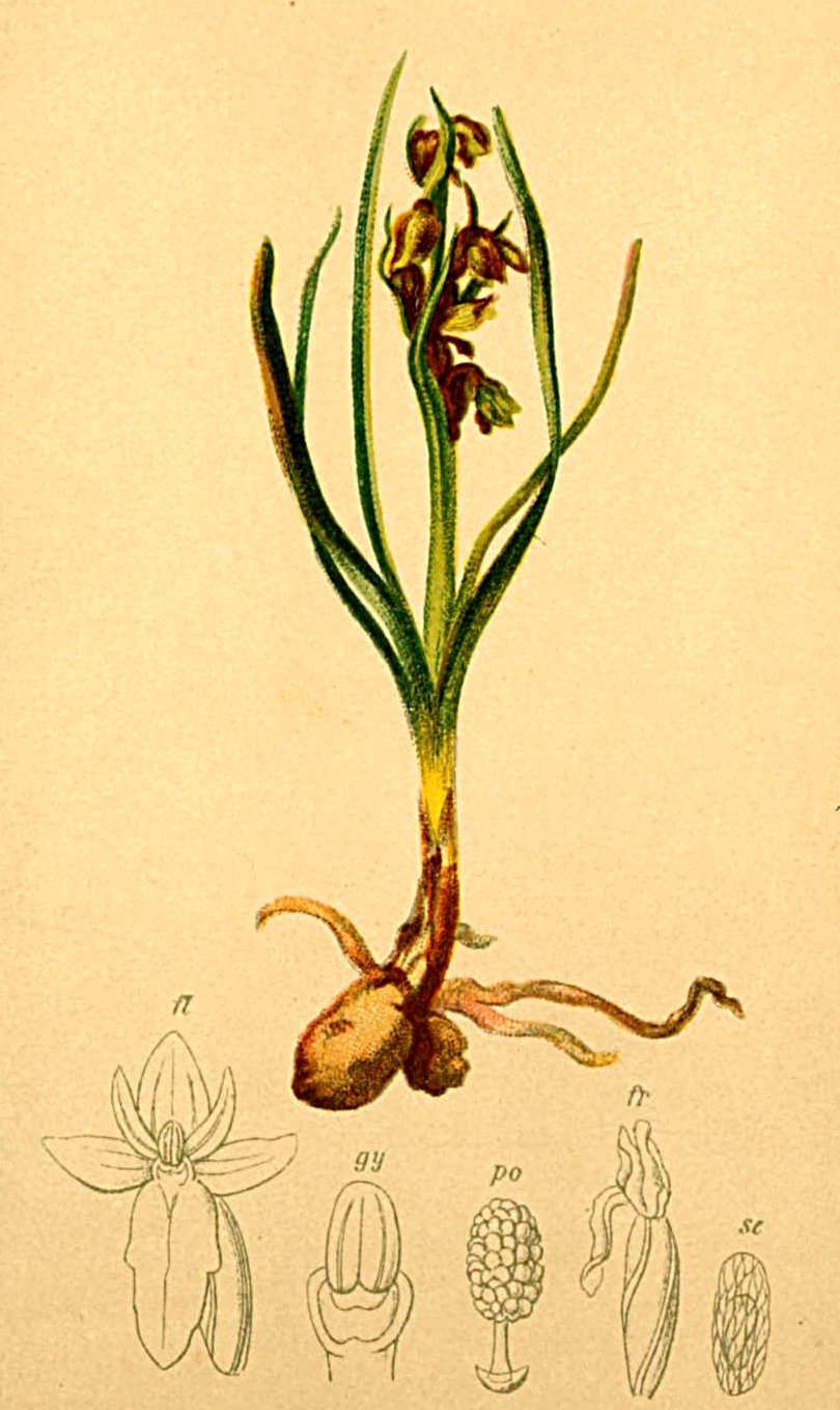 Chamorchis alpina